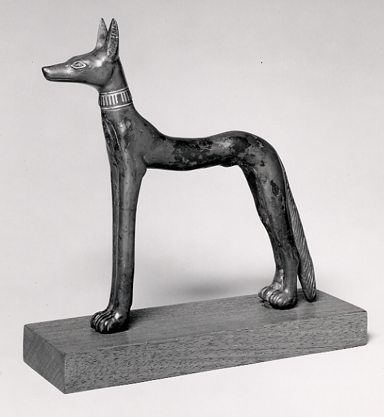 Statuette, Wepwawet